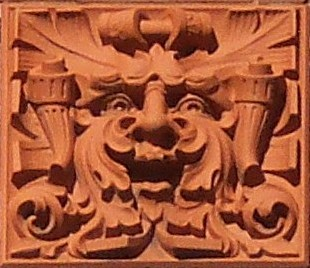 This is one of the decorative objects on the east side of the Weiler Brothers Building in the Hartford City Courthouse Square Historic District, located in Hartford City, Indiana, USA.